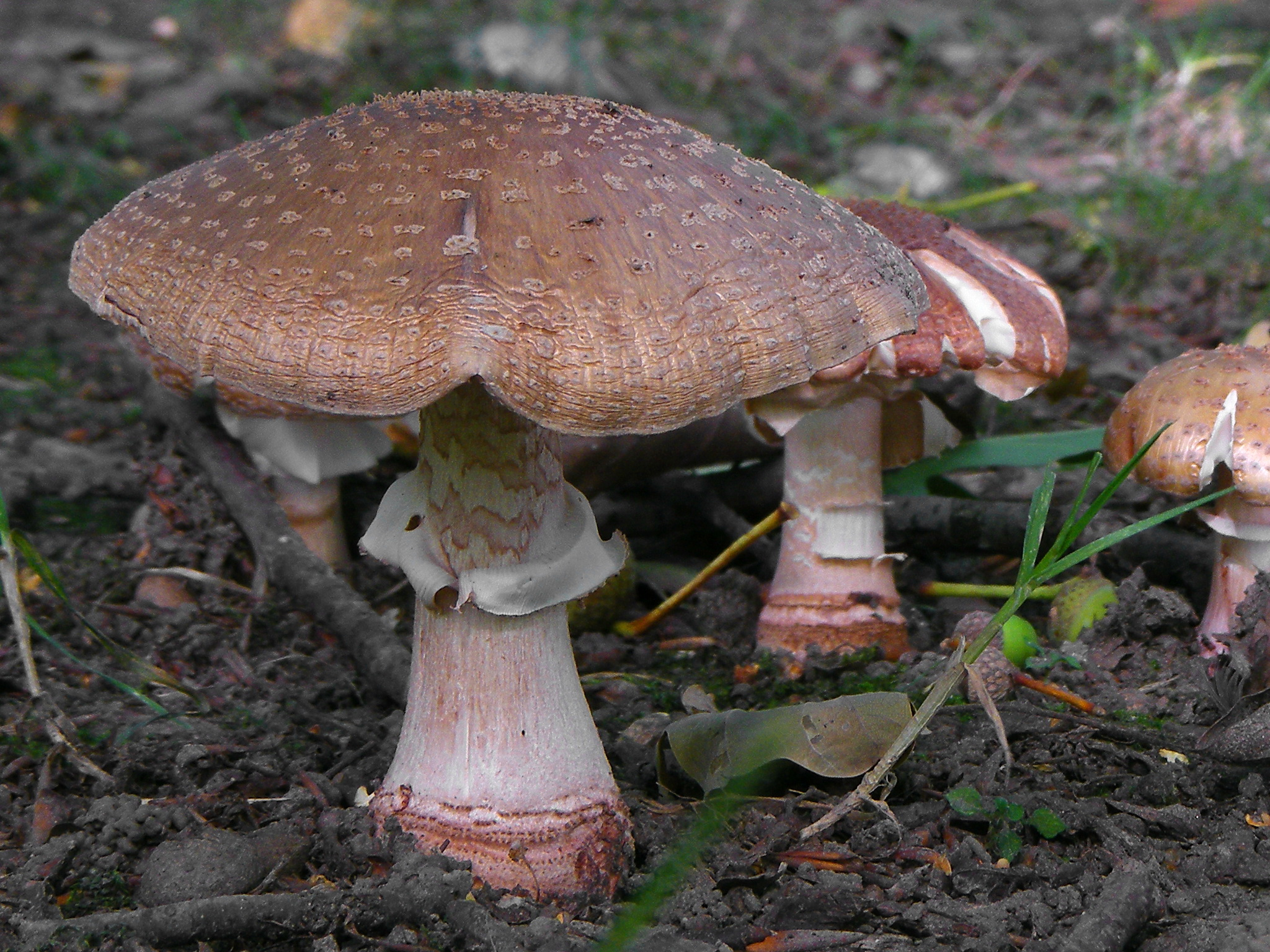 Amanita rubescens specimens.